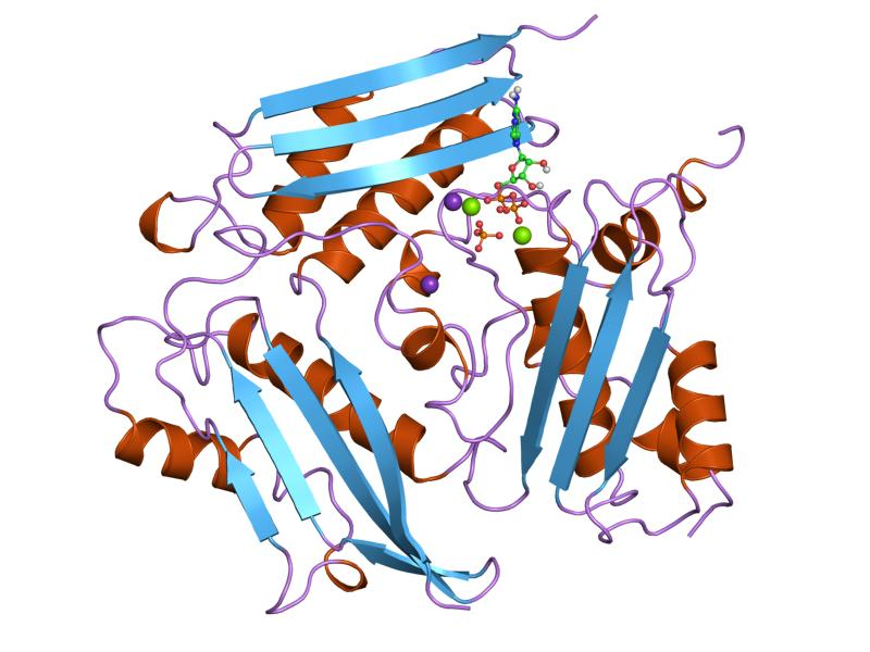 Cartoon representation of the molecular structure of protein registered with 1mxb code.